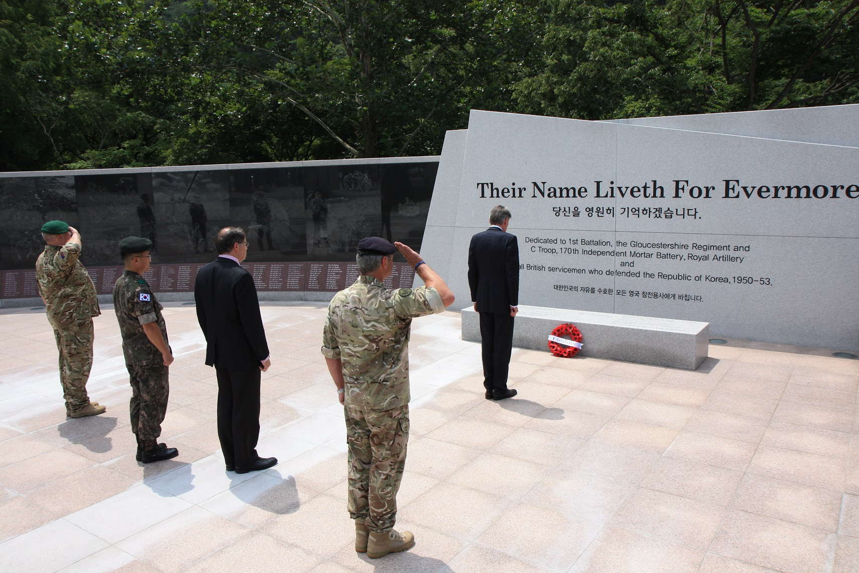 South Korea, August 2015